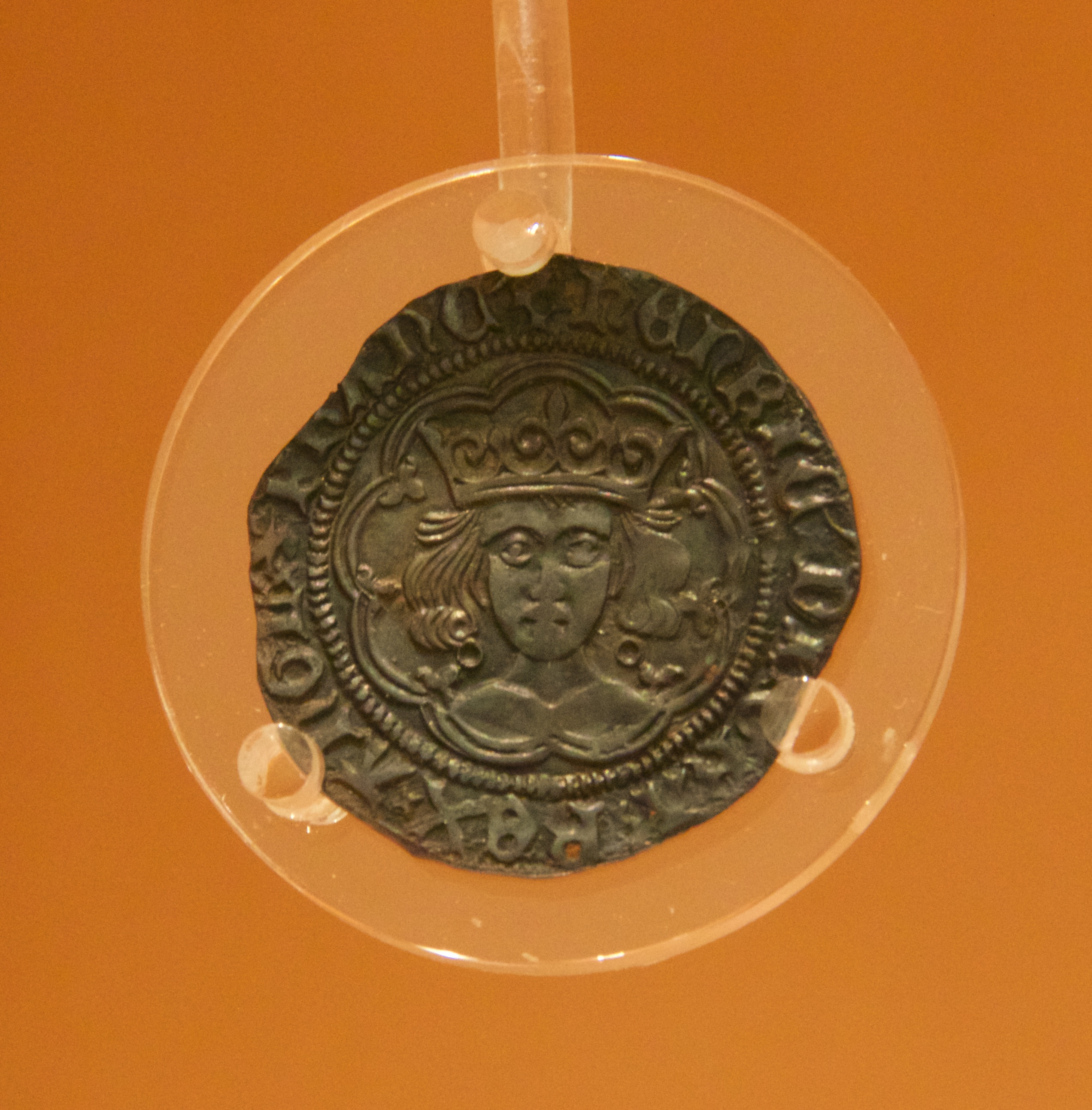 Wikimedia editathon at Clitheroe Castle Museum.